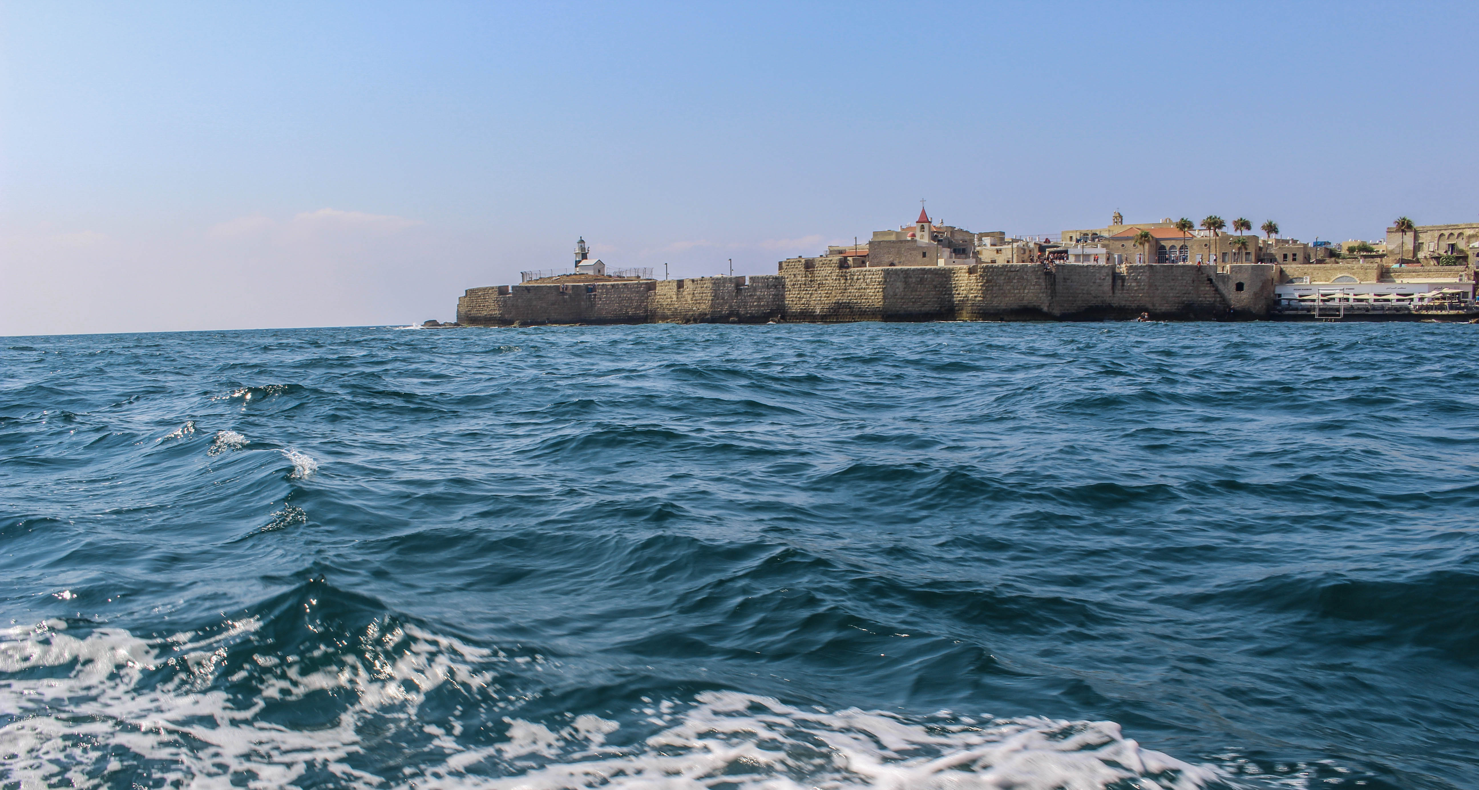 A picture contains the Mediterranean sea with the great Akko wall.